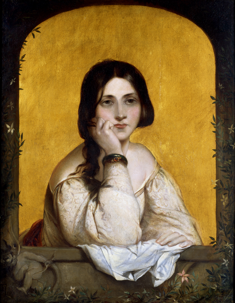 The Bride 1842 Oil on Windsor and Newton canvas, 35 1/2x27 1/2ins (90x70cm)